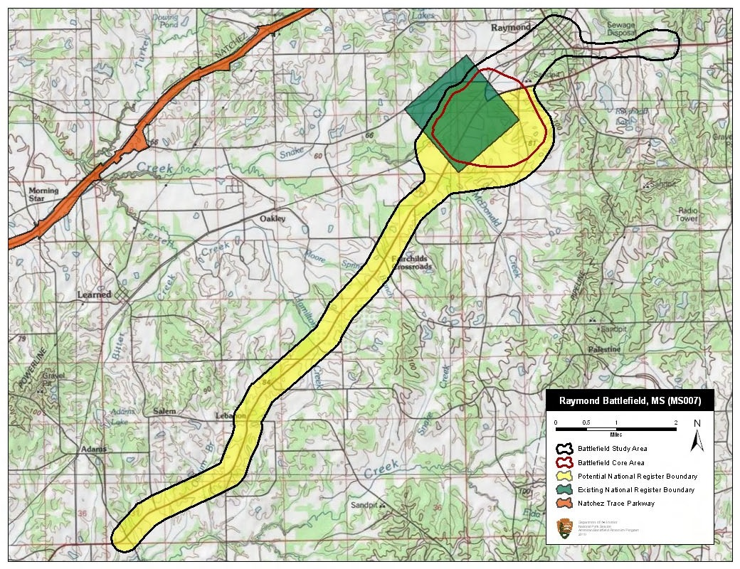 Map of battlefield core and study areas. The ABPP redrew Raymond’s Study Area to better represent the full extent of the battlefield and associated troop movements. Corridors and locations used by combatants to move from the Core Area to support areas were added, including the Federal approach route from the south and the Confederate route of withdrawal and encampment in the northeast. The ABPP reduced the battlefield Core Area to remove locations where fighting is unconfirmed by primary sources.